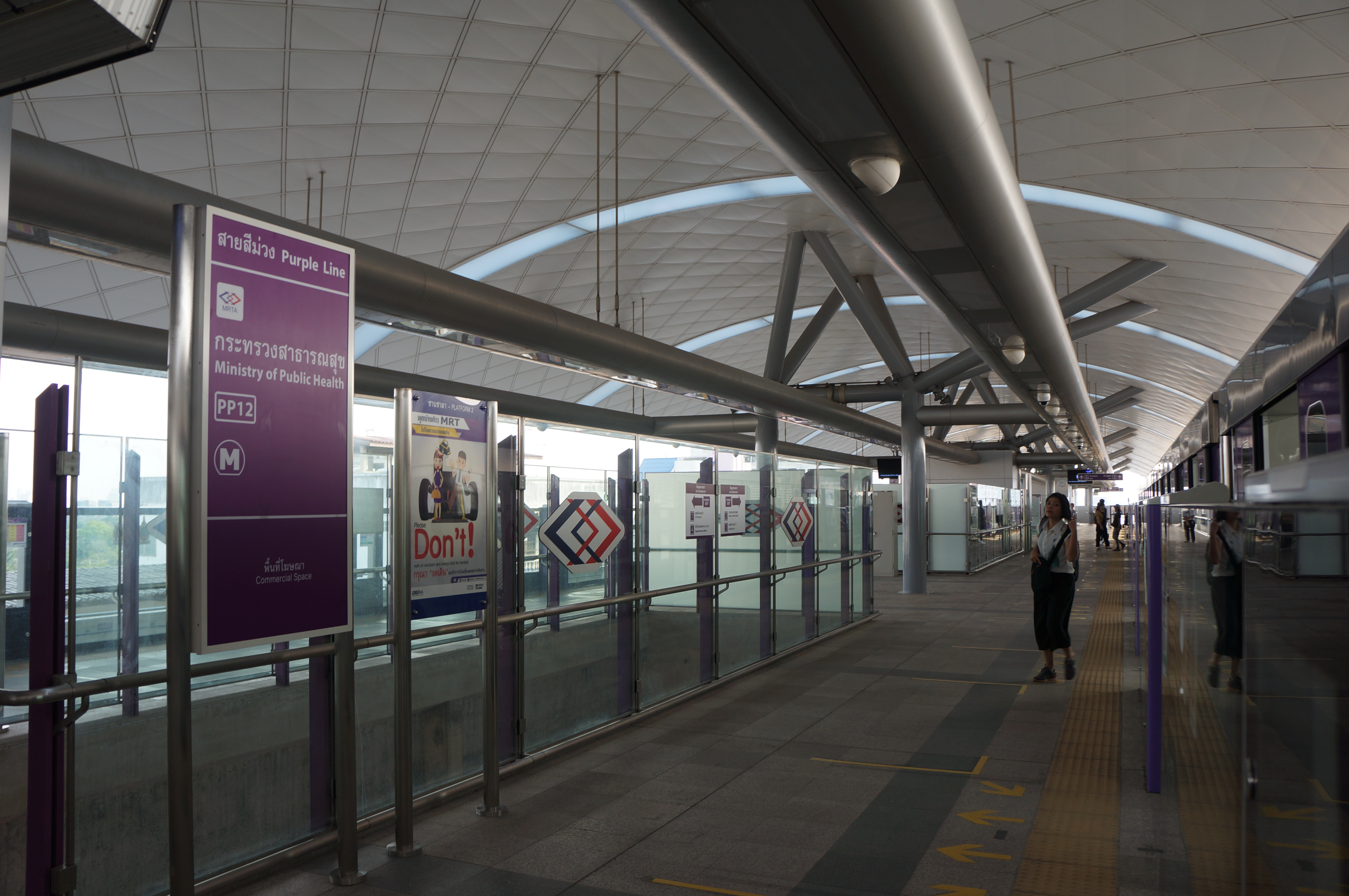 201701 Ministry of Public Health Station. Nothaburi is an independent province in Thailand, not belong to Bangkok.